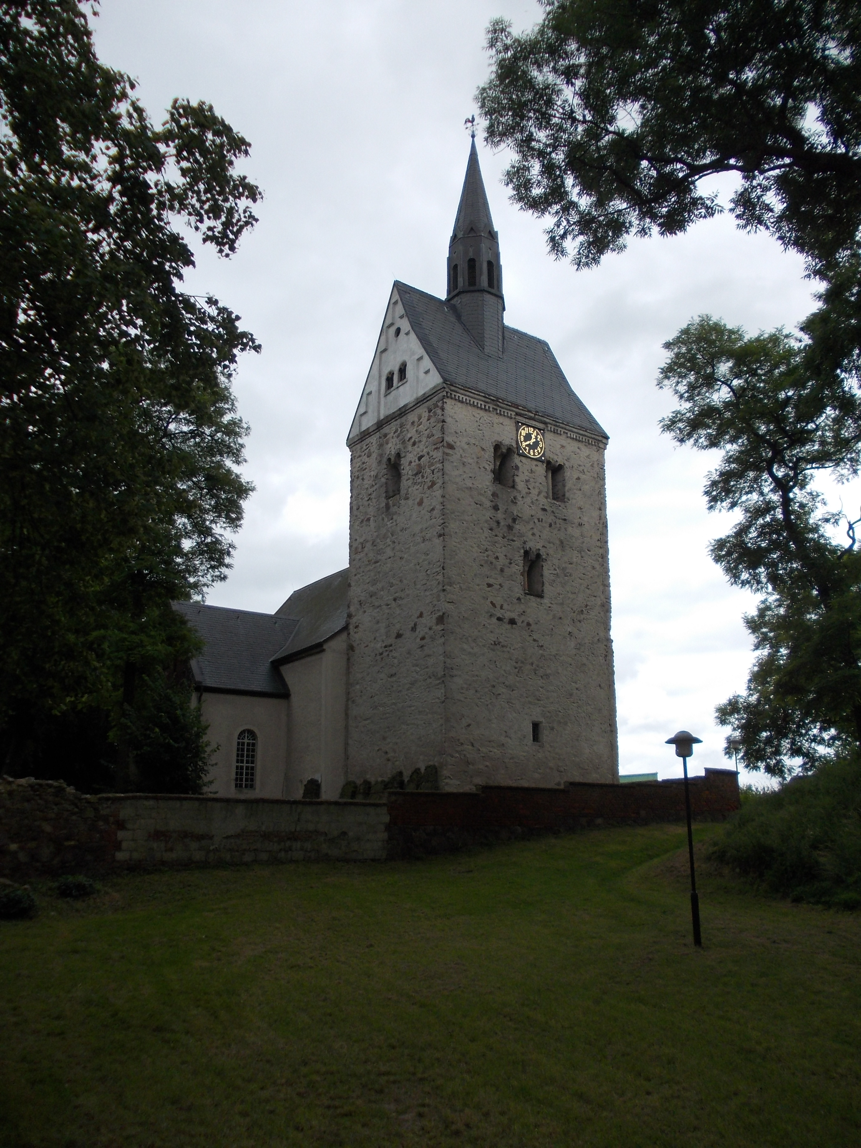 Spören church (Zörbig, Anhalt-Bitterfeld district, Saxony-Anhalt)